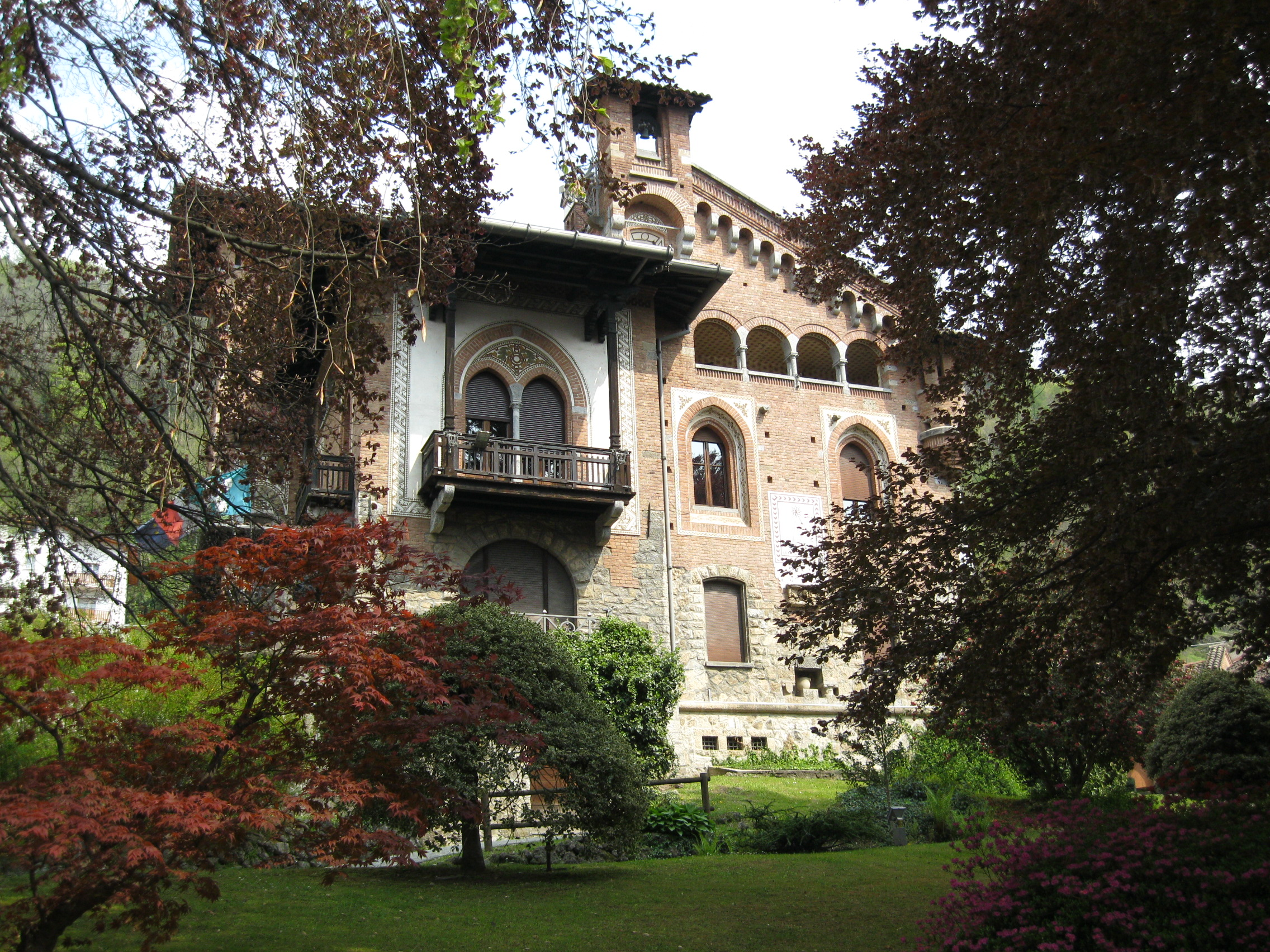 villa now used as district residence of Introbio, a small town in Lombardy, Italy